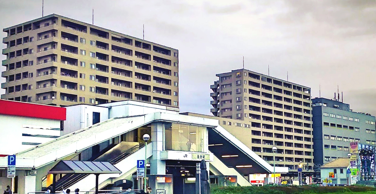 JR Sakura Sta. south side